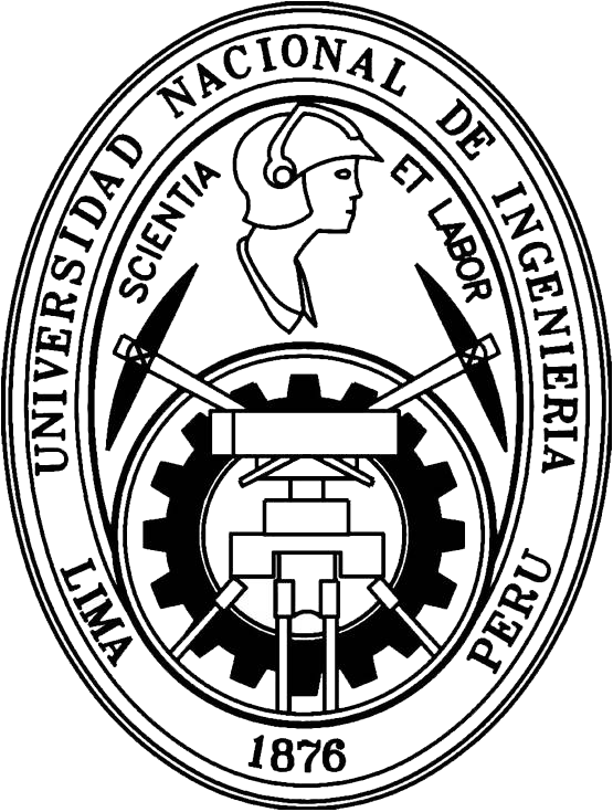 Escudo de la UNI.